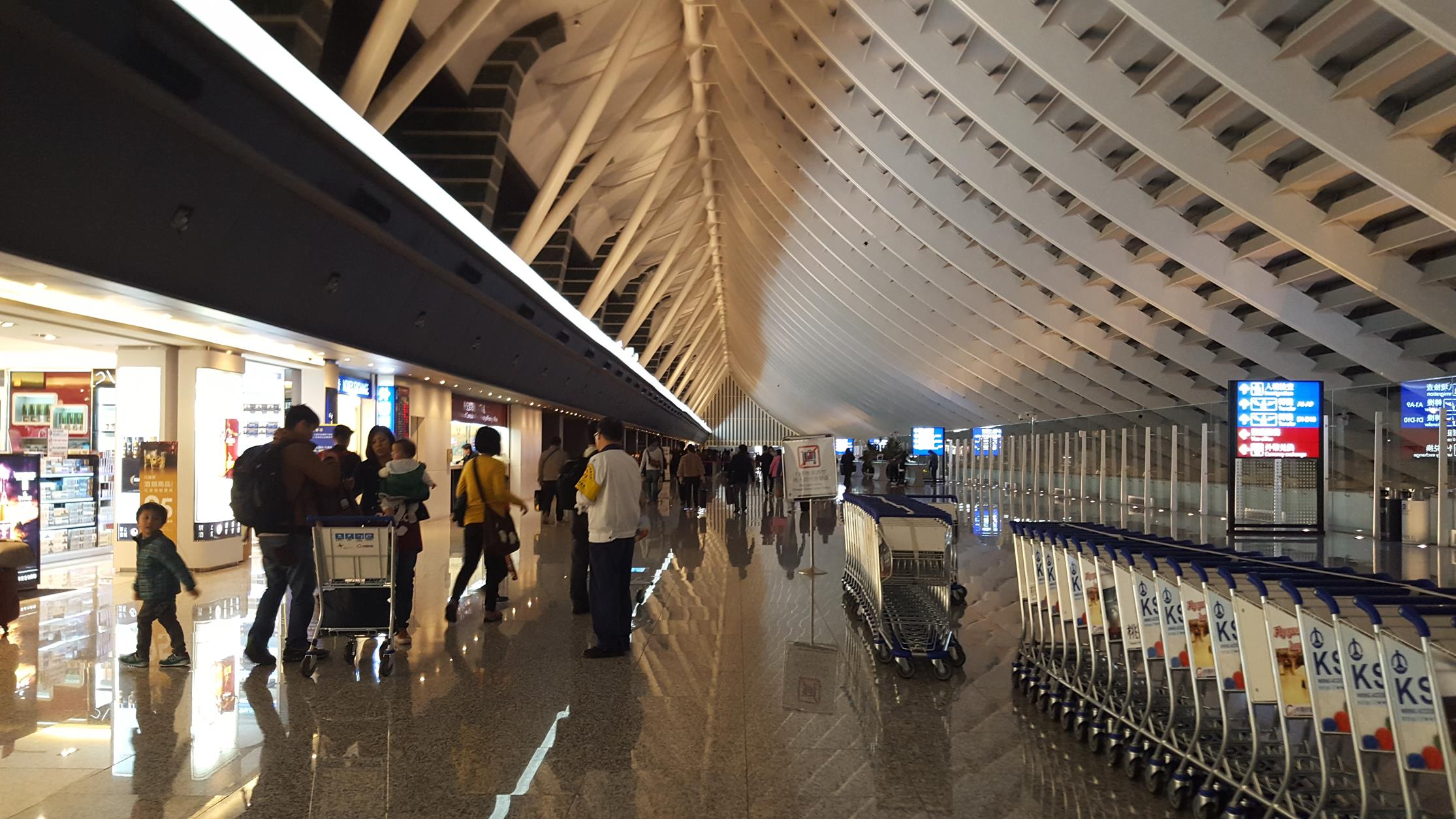 Terminal 1 of Taoyuan International Airport, Taiwan